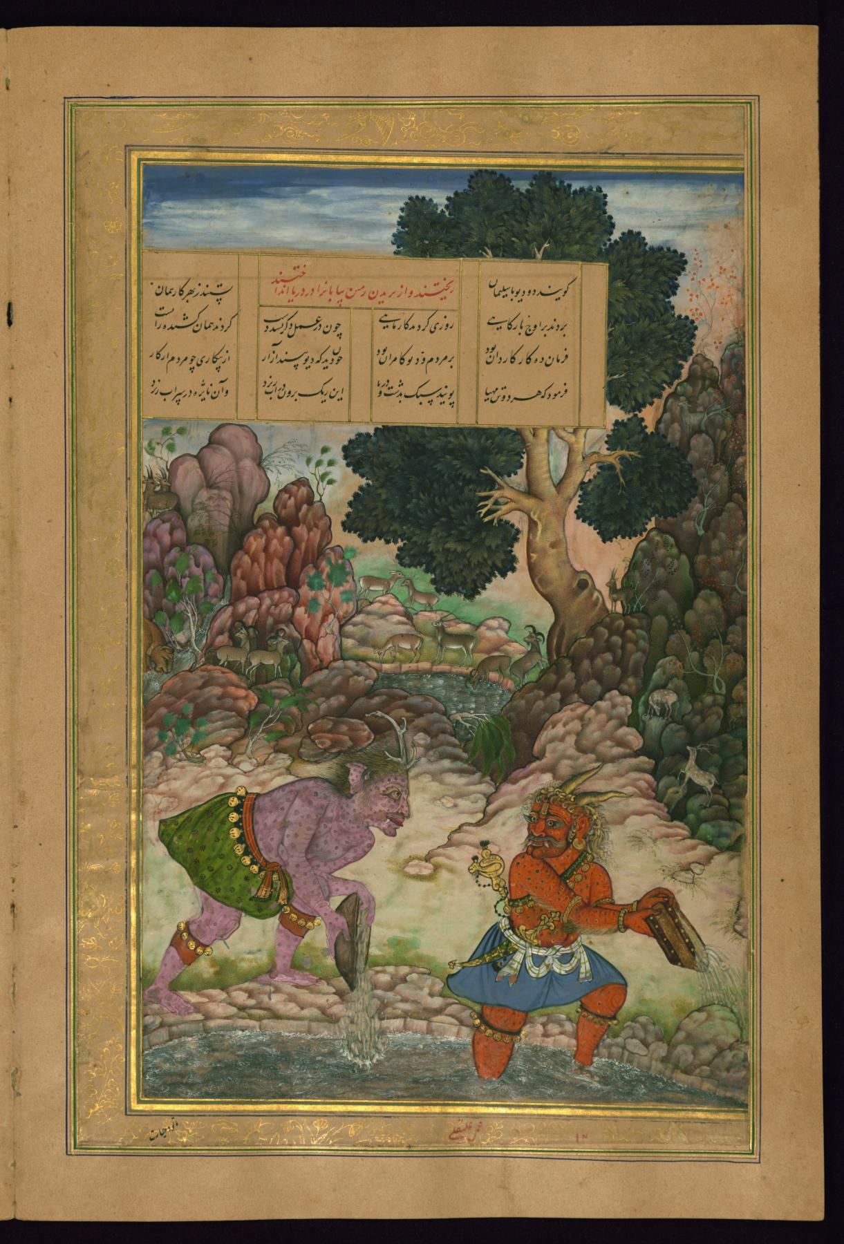 This illustration from Walters W.624 depicts the story of two divs (demons) who, out of boredom, wreak havoc on the world. Recognizing the dangers of idleness, the wise King Solomon consigns them to a life of futile activity: filling the sea with sand and the desert with water. The inscription naming the artist "Ali Quli is composed in red ink at the bottom of the page.